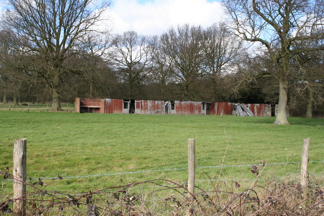 Hoppers' huts, Grange Farm, near Tonbridge, Kent, England. These derelict iron structures are the remains of hoppers' huts, which were used, many years ago, as living accommodation by hop pickers from London who had travelled down to Kent to earn a little money picking the hop harvest. Apparently there are very few similar survivors of these huts.